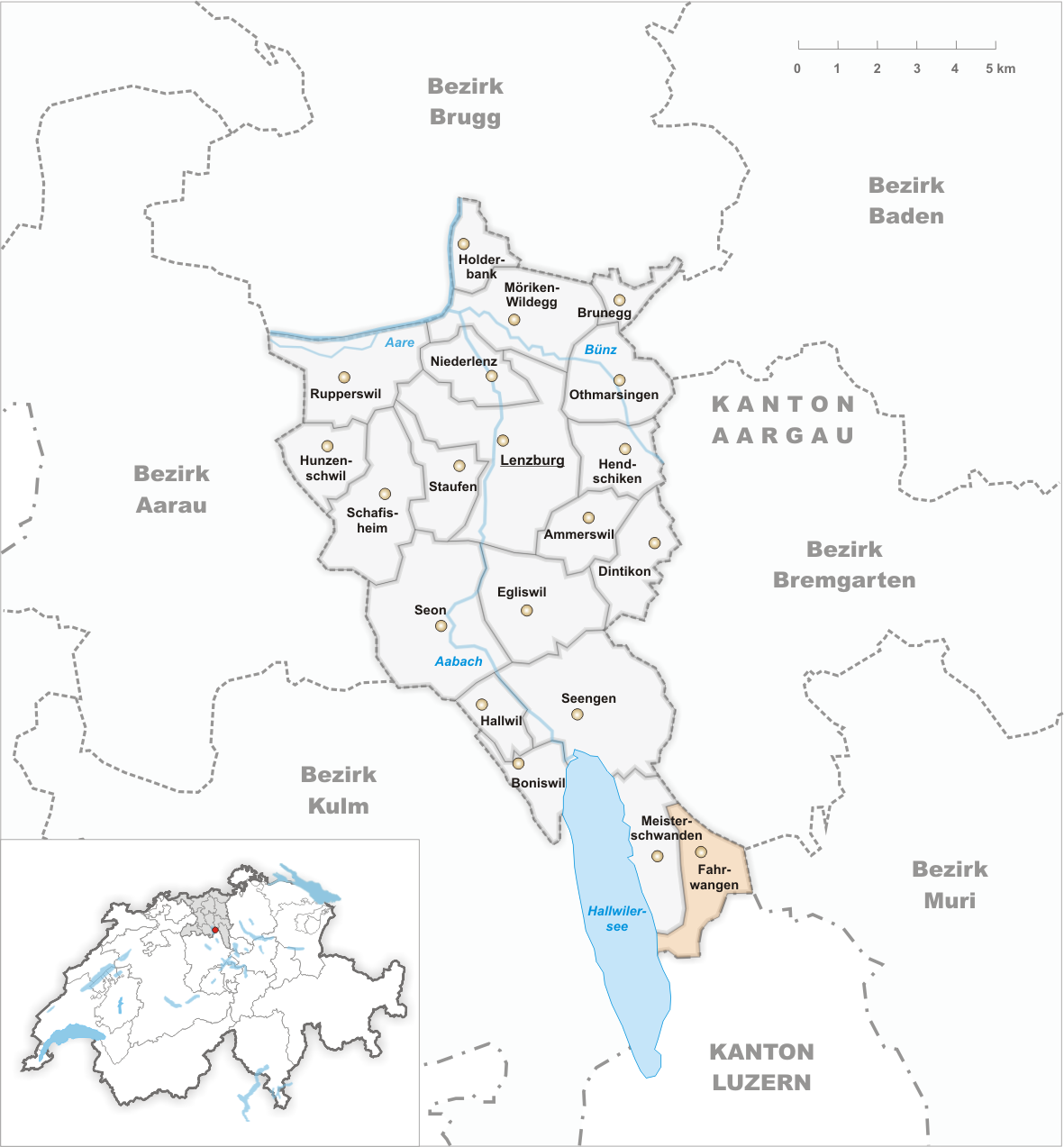 Municipality Fahrwangen